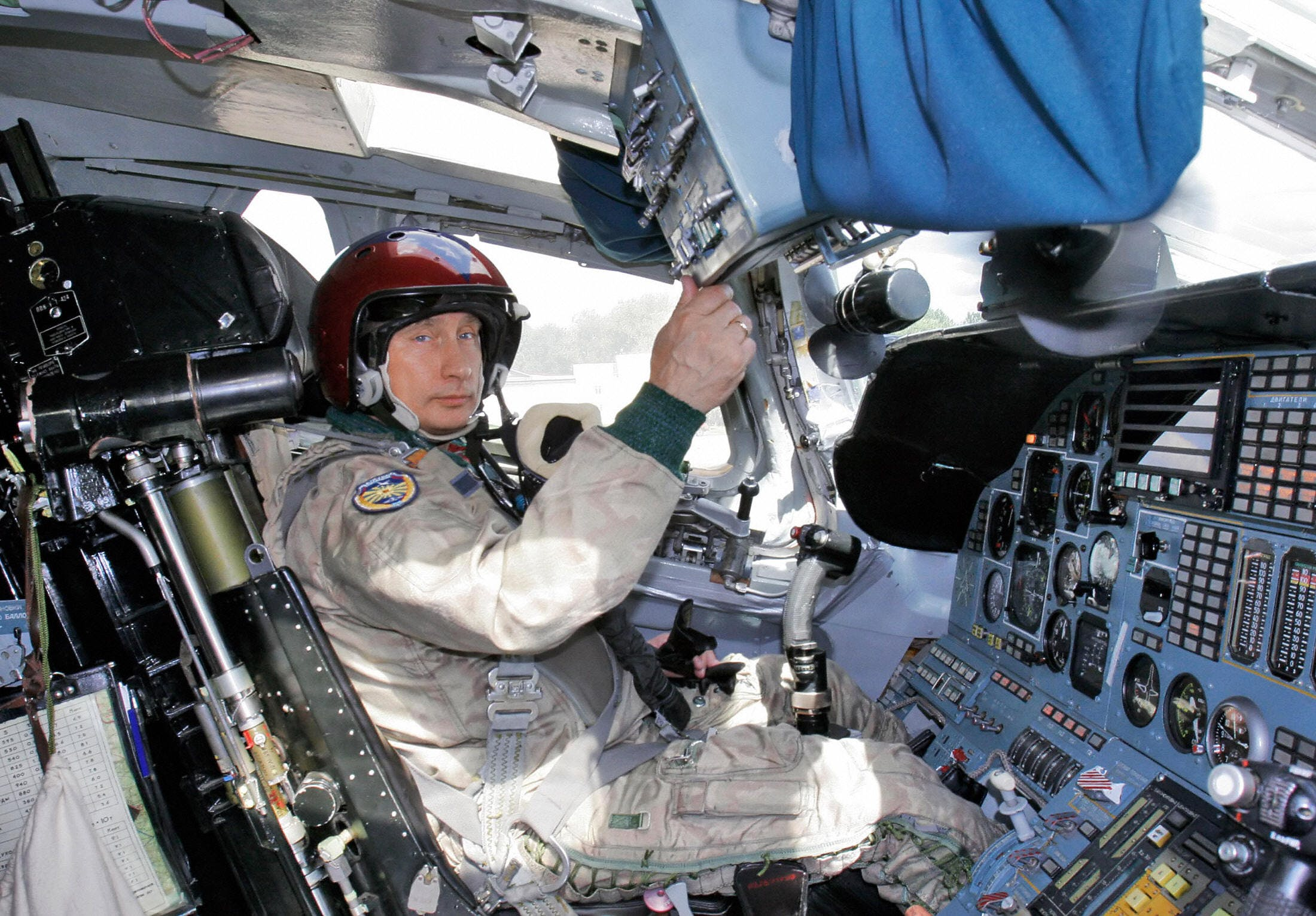 The President of Russia, Vladimir Putin, in the cabin of strategic bomber ТU-160 before the beginning of military exercises by the long-range aircraft of the Air Forces and Northern Fleet, Chkalovsky Airfield, Moscow Region, Russia.